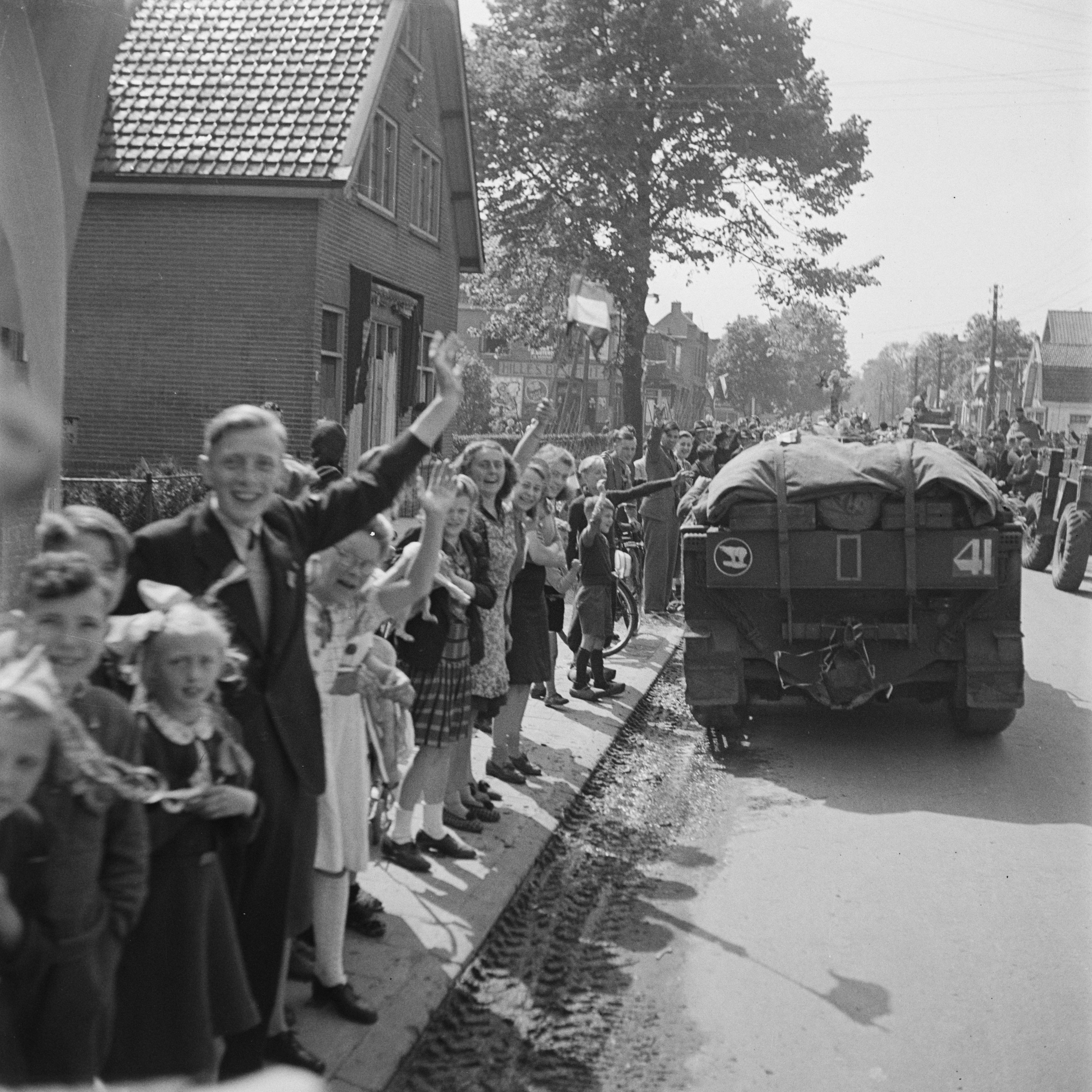 The liberation of Utrecht by Canadian soldiers of the First Canadian Army.